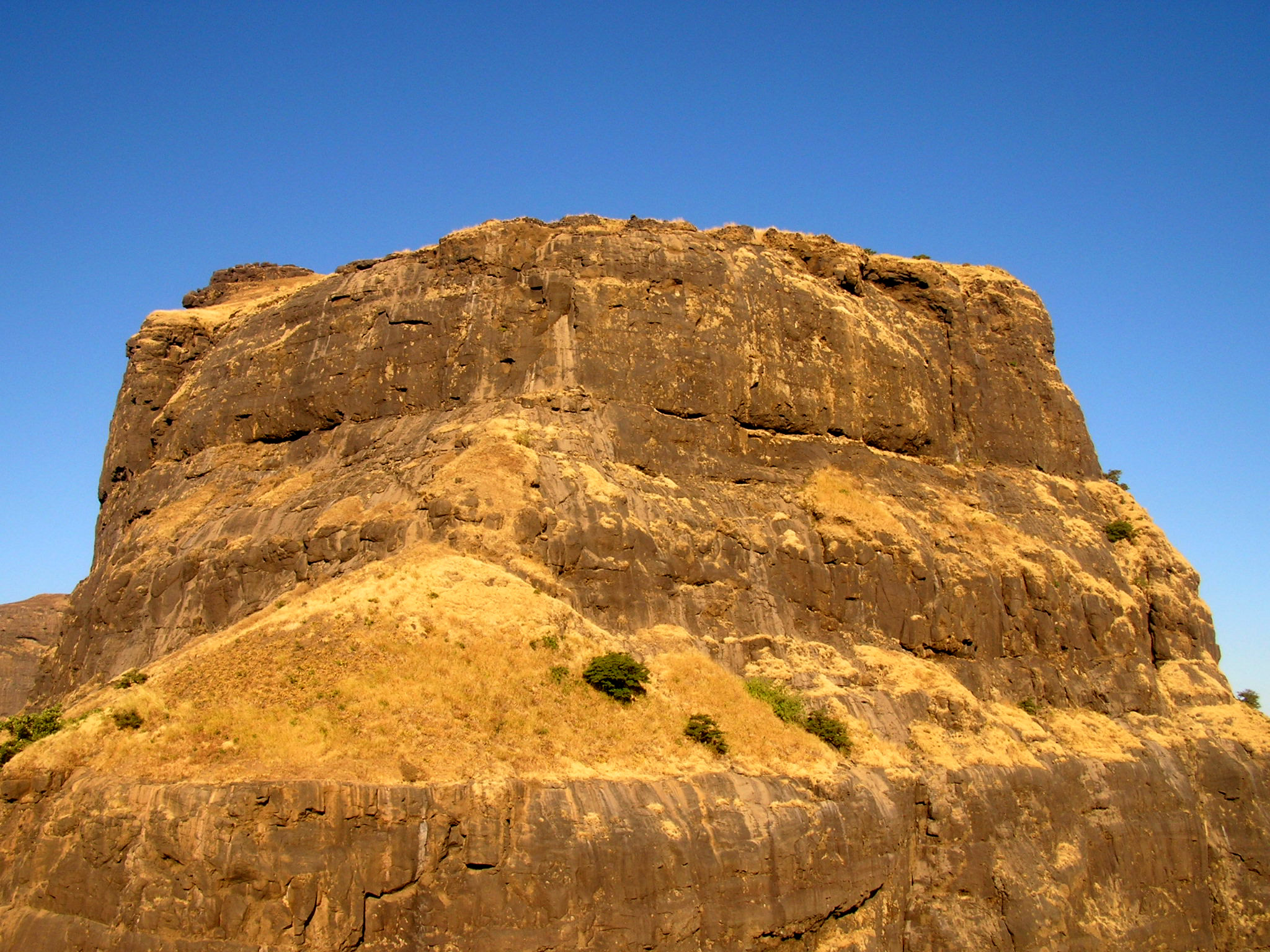 Madan is fort in Nasik region in Maharashtra state in India